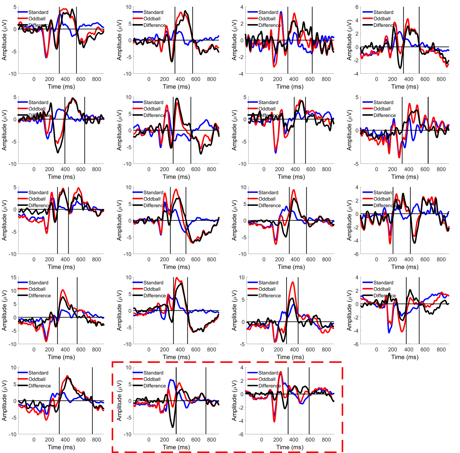 The P300 response of different subjects. A subject-by-subject definition of the P300 area-under-the-curve (AUC) feature boundaries as used in the original paper (see image source below). The P300 ERPs are presented for all subjects with the definition of the P300 AUC: event-related potentials averaged over all oddball (red) and standard (blue) trials in electrode Cz are shown for each subject. The difference between the oddball and standard curves (solid black) was used to determine for each subject the zero-crossing points (solid vertical lines) around the P300 peak. The P300 AUC per trial was defined as the area between these two time points on each trial. The last two plots marked by a dashed red rectangle correspond to the two subjects that were omitted from the remainder of the analyses.